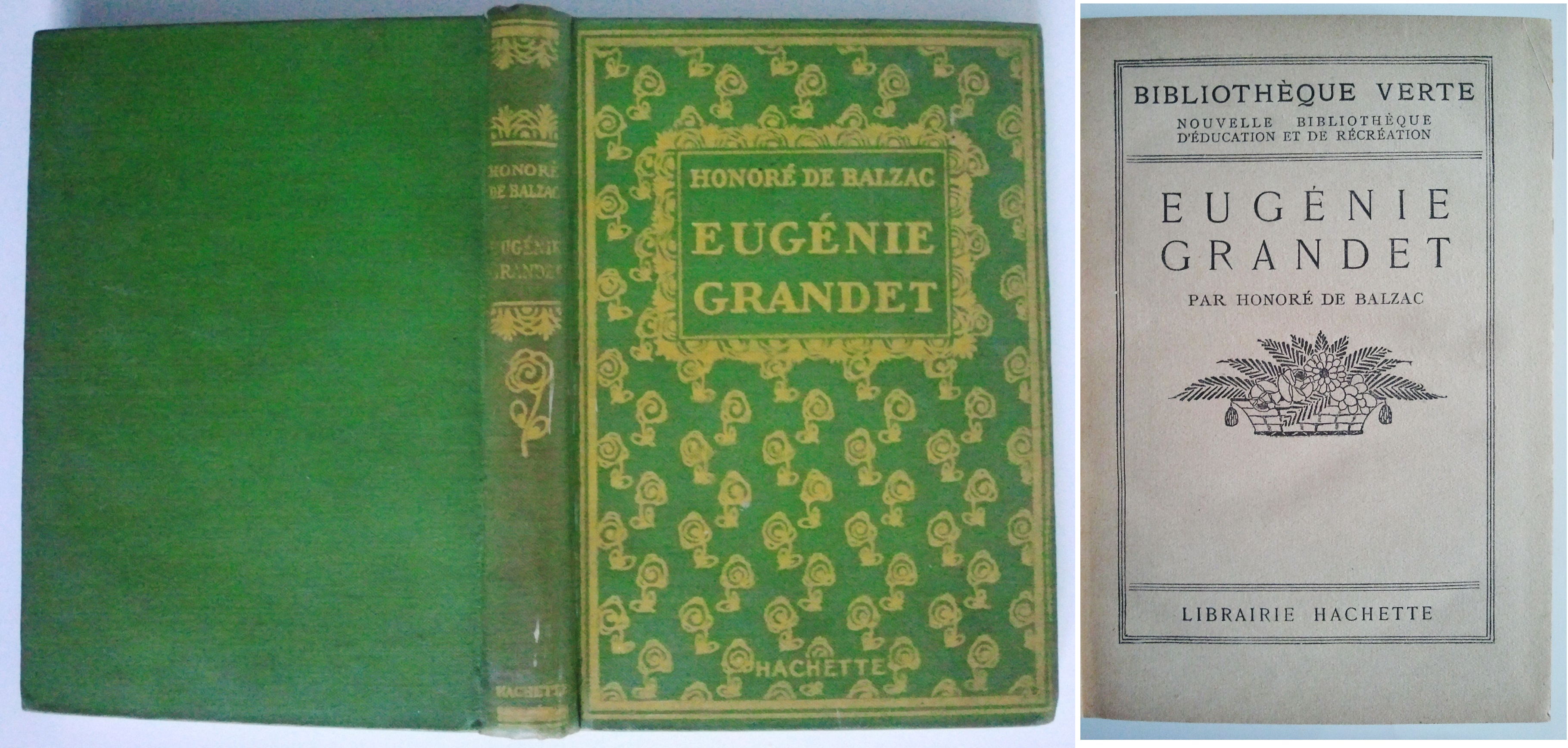 Bibliothèque verte : Un exemplaire de la des années 20.